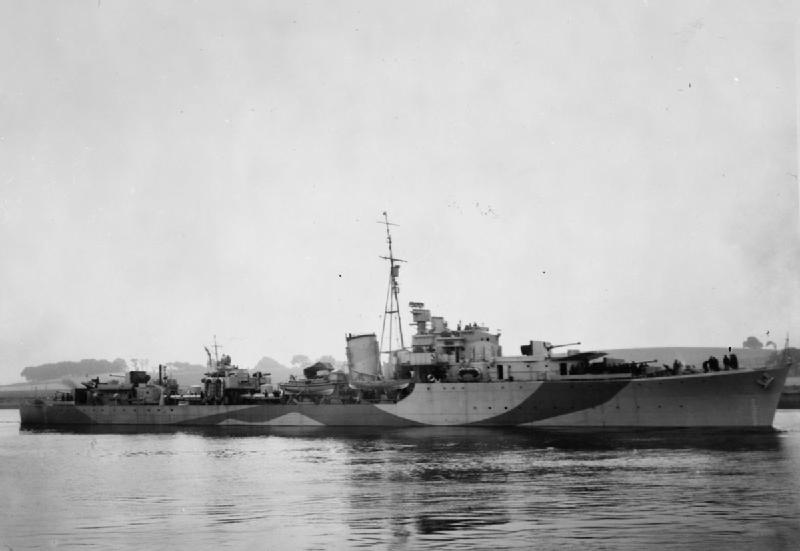 Photograph of British destroyer HMS Rotherham, on completion.